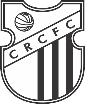 Cotonifício Rodolfo Crespi F.C.png